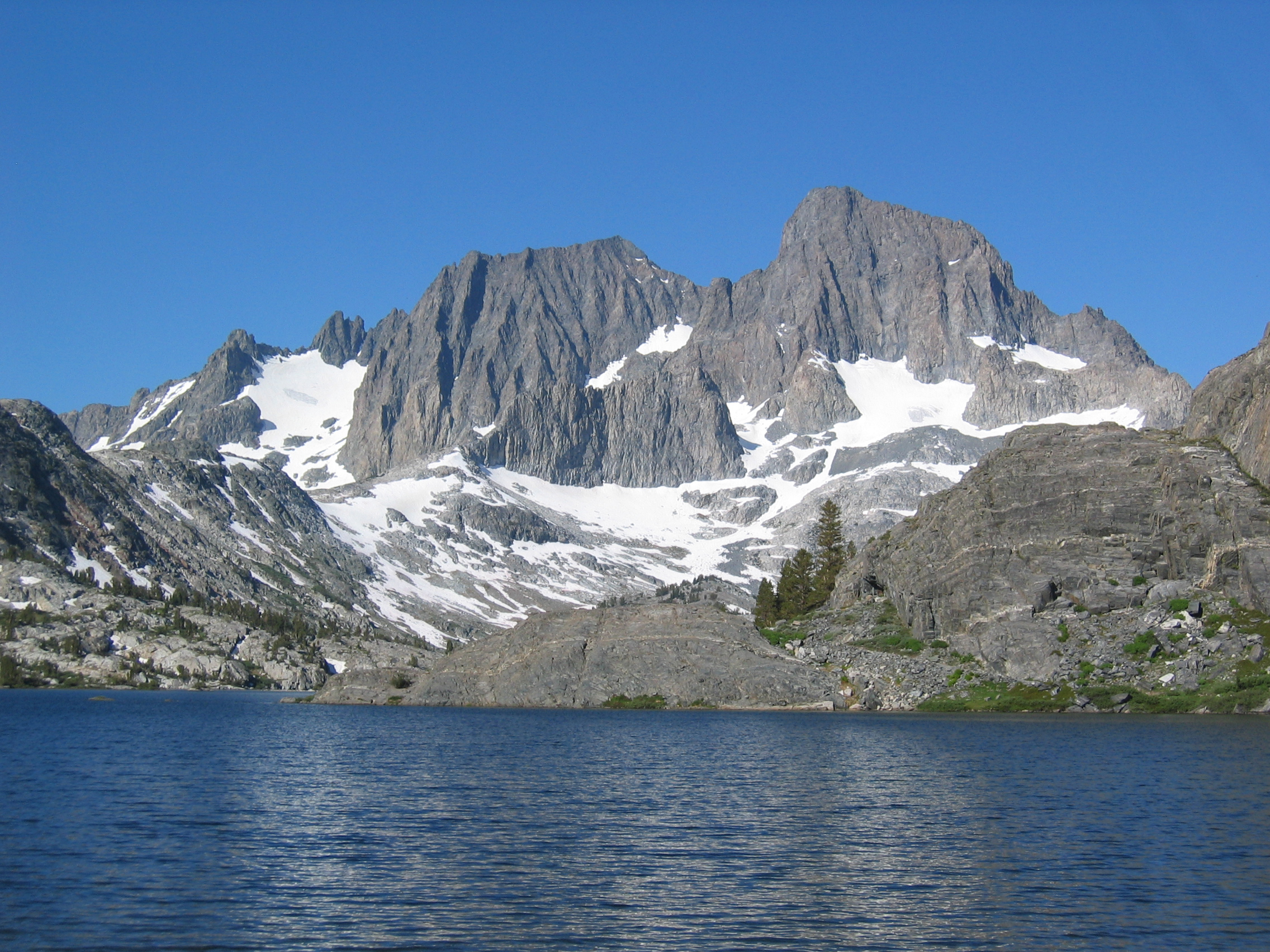 Mount Ritter (on left, actually higher) and Banner Peak (right), viewed across Garnet Lake from the Muir Trail. Ansel Adams Wilderness, California.